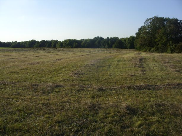 Nature reserve Riddagshausen